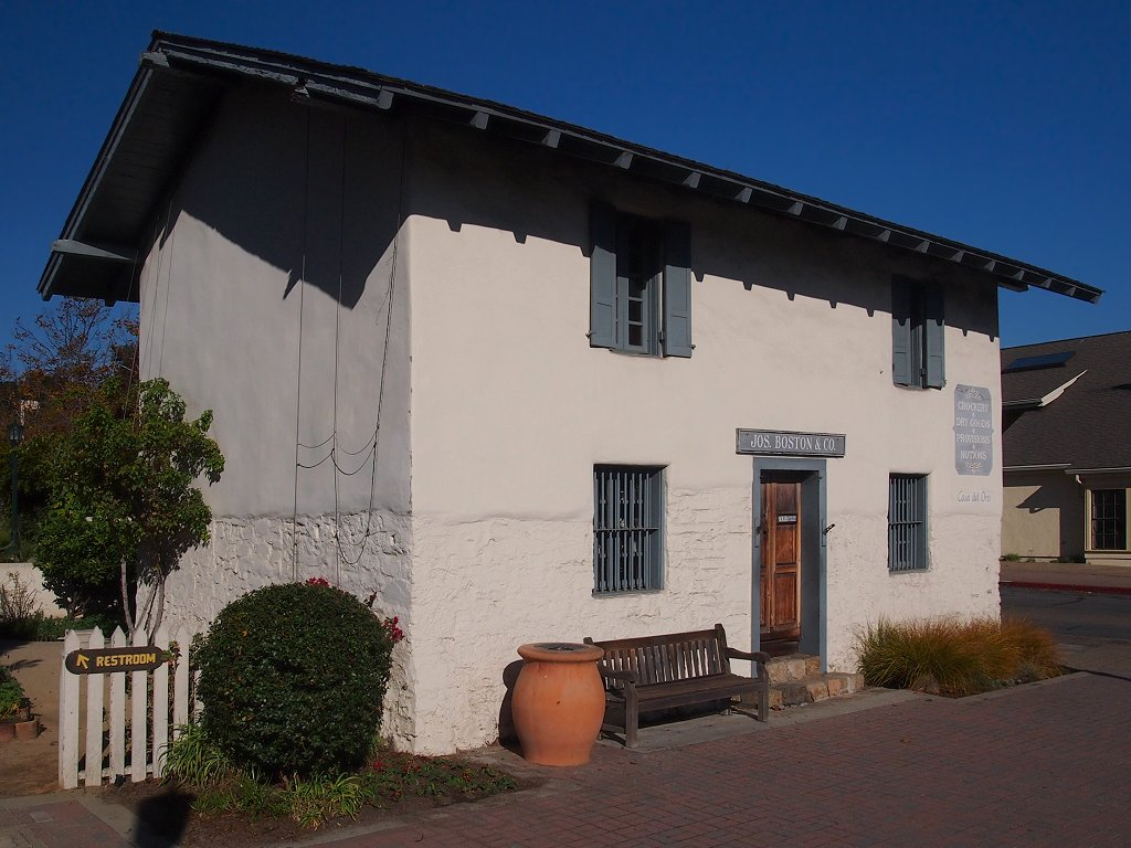 Casa del Oro, Monterey, California, USA. Viewed from the southeast.